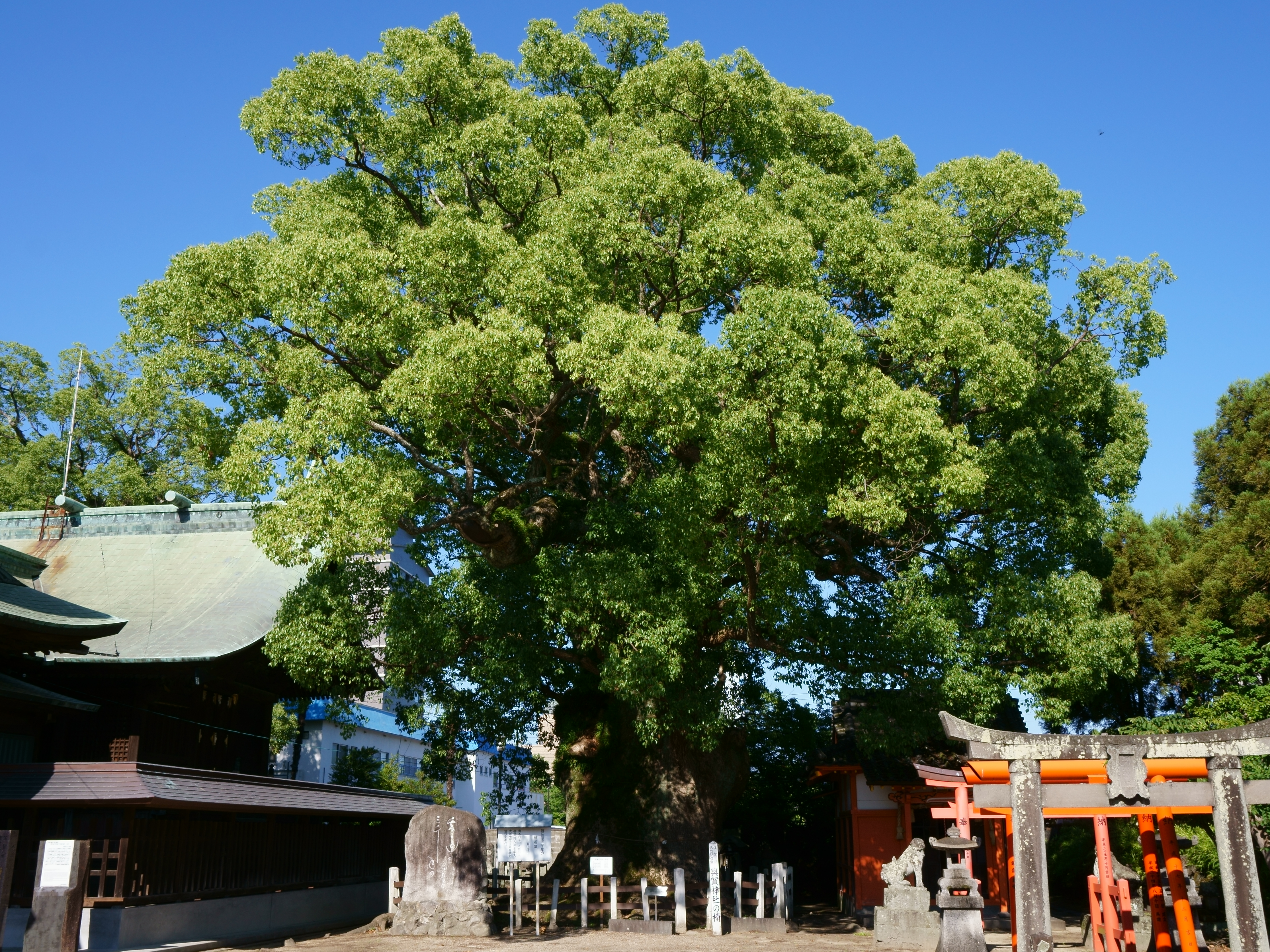 A camphor tree in Yoka-jinja Shrine, Saga city, Saga prefecture. Its age is about 1,400. It is designed prefectural natural monument of Saga prefecture.